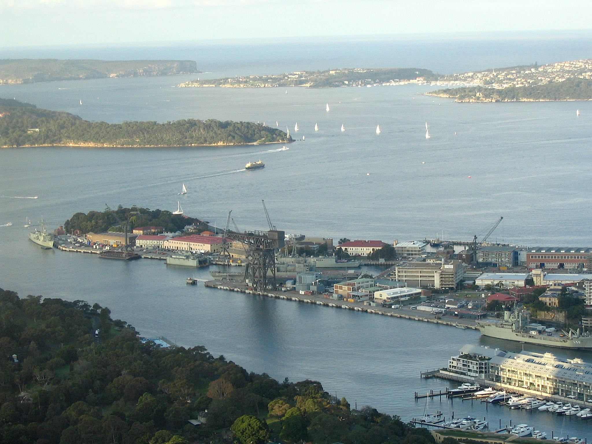 Garden Island, New South Wales as viewed from Sydney Tower in 2007. A large ship is docked there and sailboats are out on the harbour behind it. The peninsula behind it on the left is Bradley's Head.